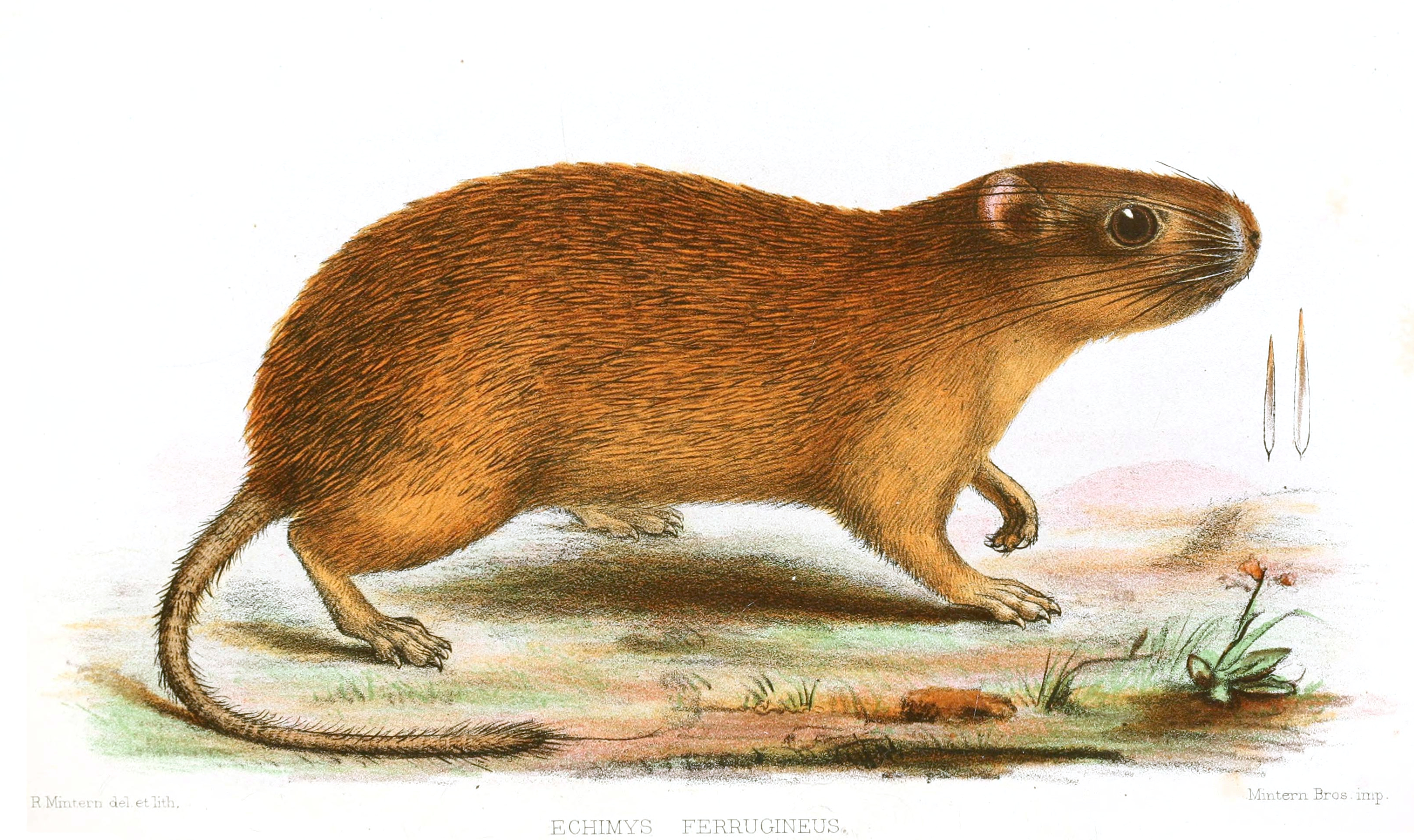 Echimys ferrugineus= Mesomys hispidus